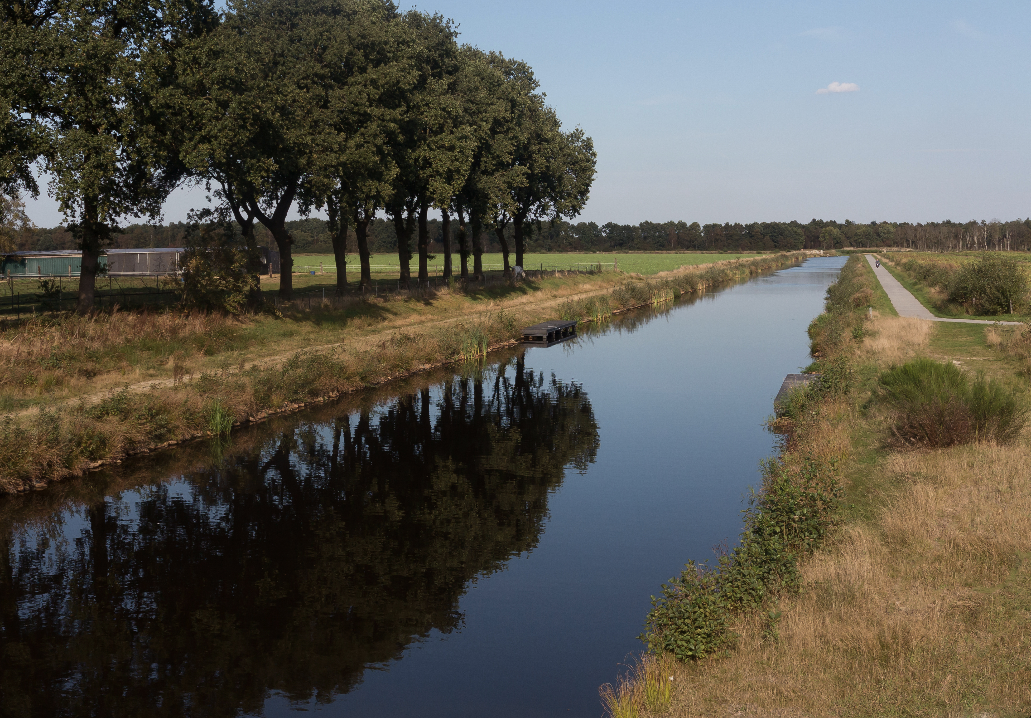 between Nieuw-Dordrecht and Klazienaveen, ditch in bog wetland